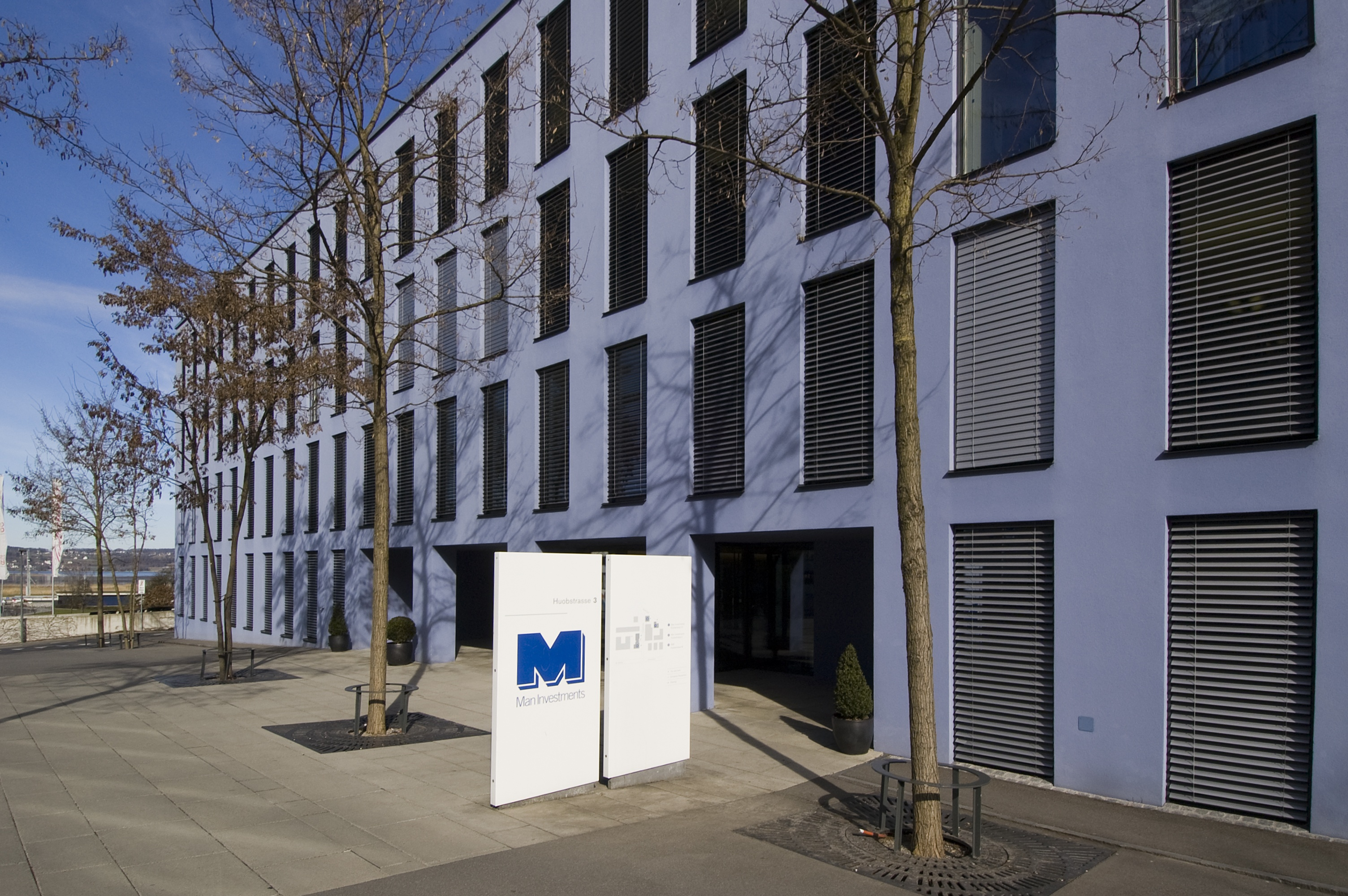 Man Group in Pfäffikon SZ